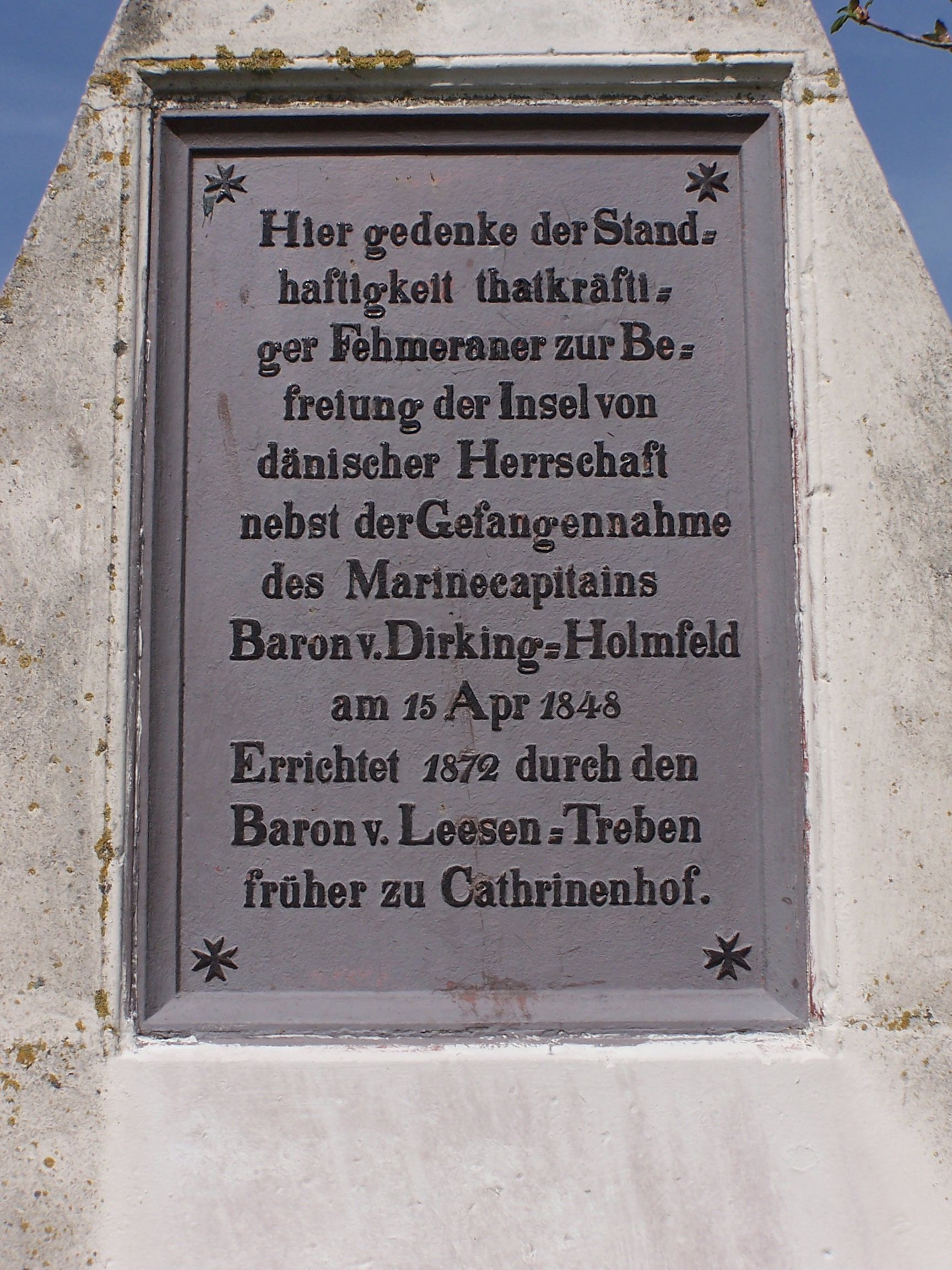 Memorial at the german island FehmarnDansk: Mindesmærke på den tyske ø Femern